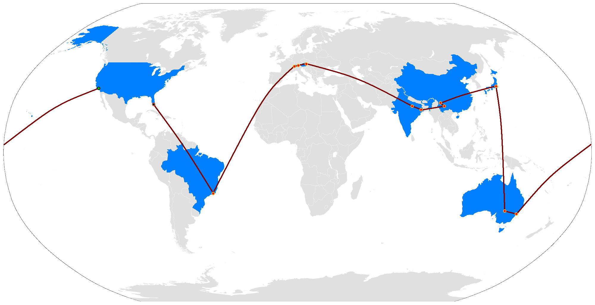 The Route Map of The Amazing Race 18